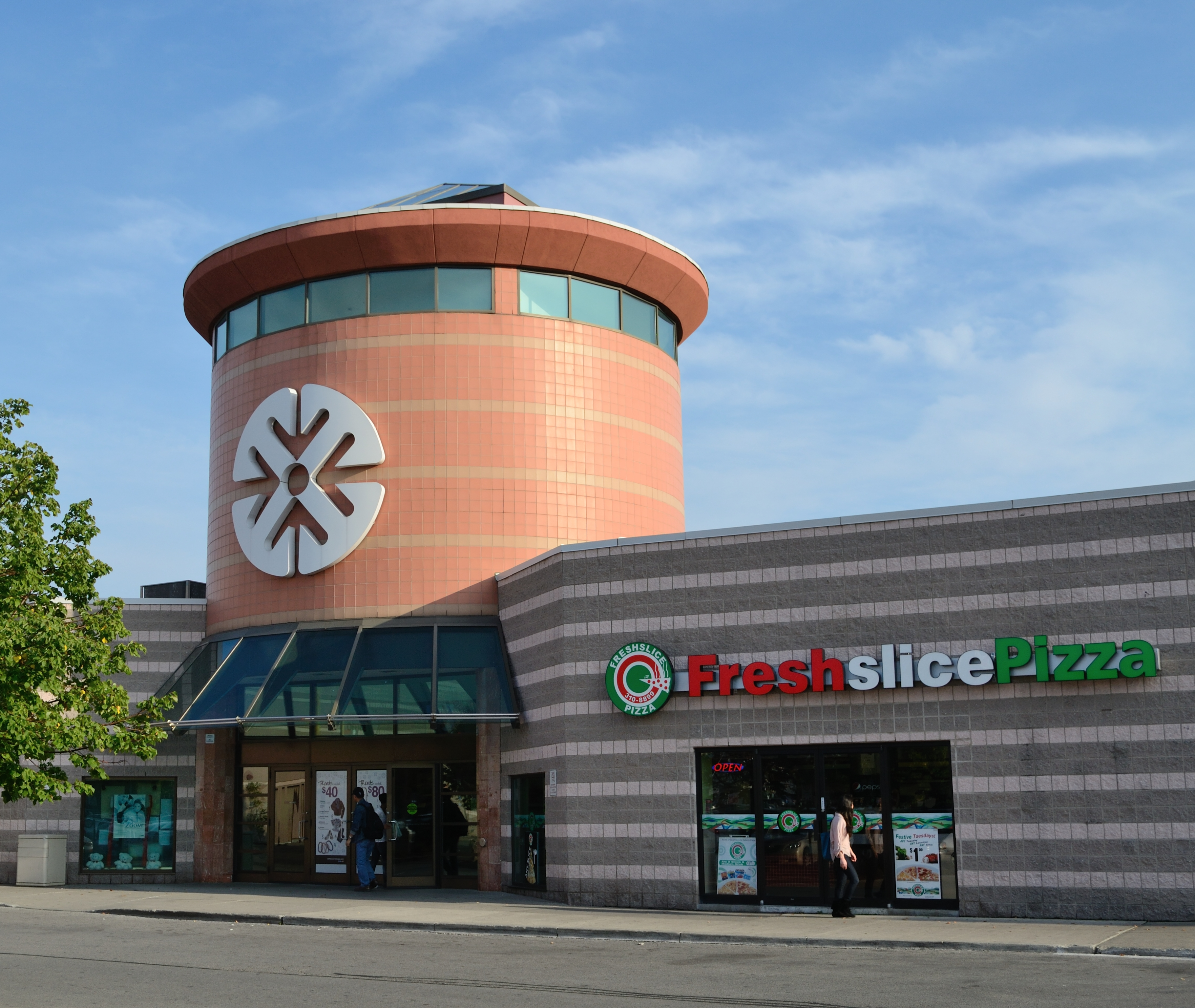 Centerpoint Mall (north entrance), Toronto